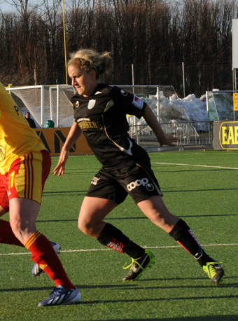 Camille Levin of Kopparberg / Göteborg FC defends against a Tyreso player during the 2013 Svenska Supercupen on April 1, 2013.